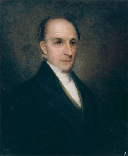 Charles Bulfinch, Third Architect of the Capitol. Portrait by George B. Matthews, after 1842 drawing by Alvan Clark. Oil on canvas, 29-1/2" x 24-1/2". U.S. Capitol Building, Washington, DC.